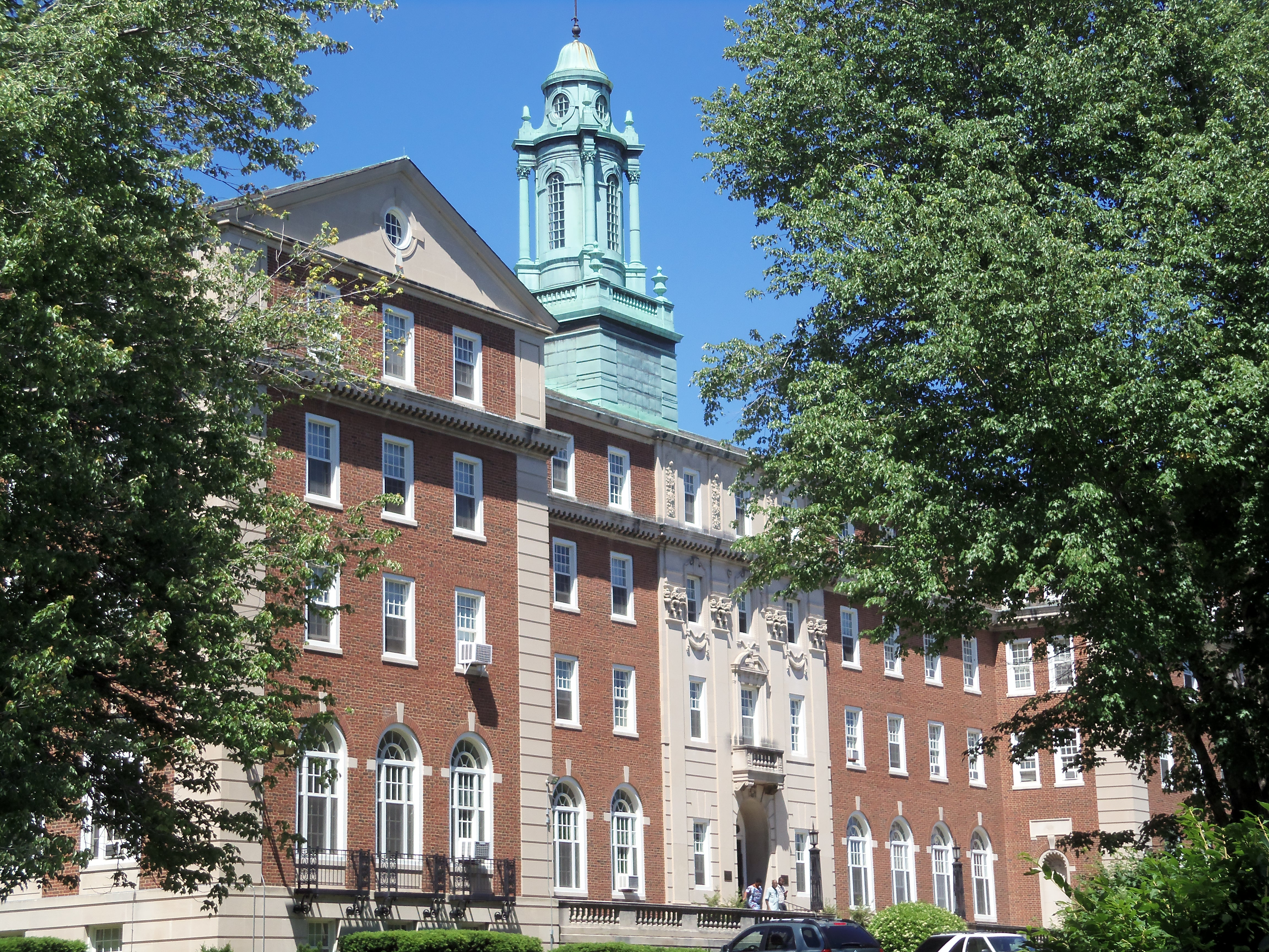 St. Joseph Seminary (Josephites) near the campus of The Catholic University of America in Washington, DC.